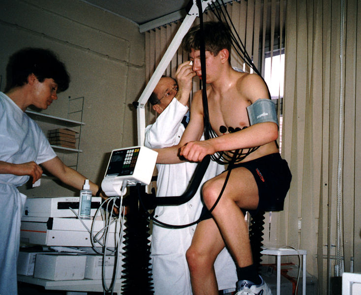 Photo patient in carrying out tests with physical exercise on bicycle.